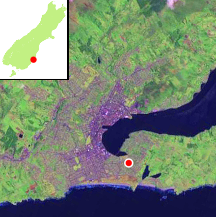 Map showing location of Andersons Bay, Dunedin, New Zealand. Based on NASA satellite map